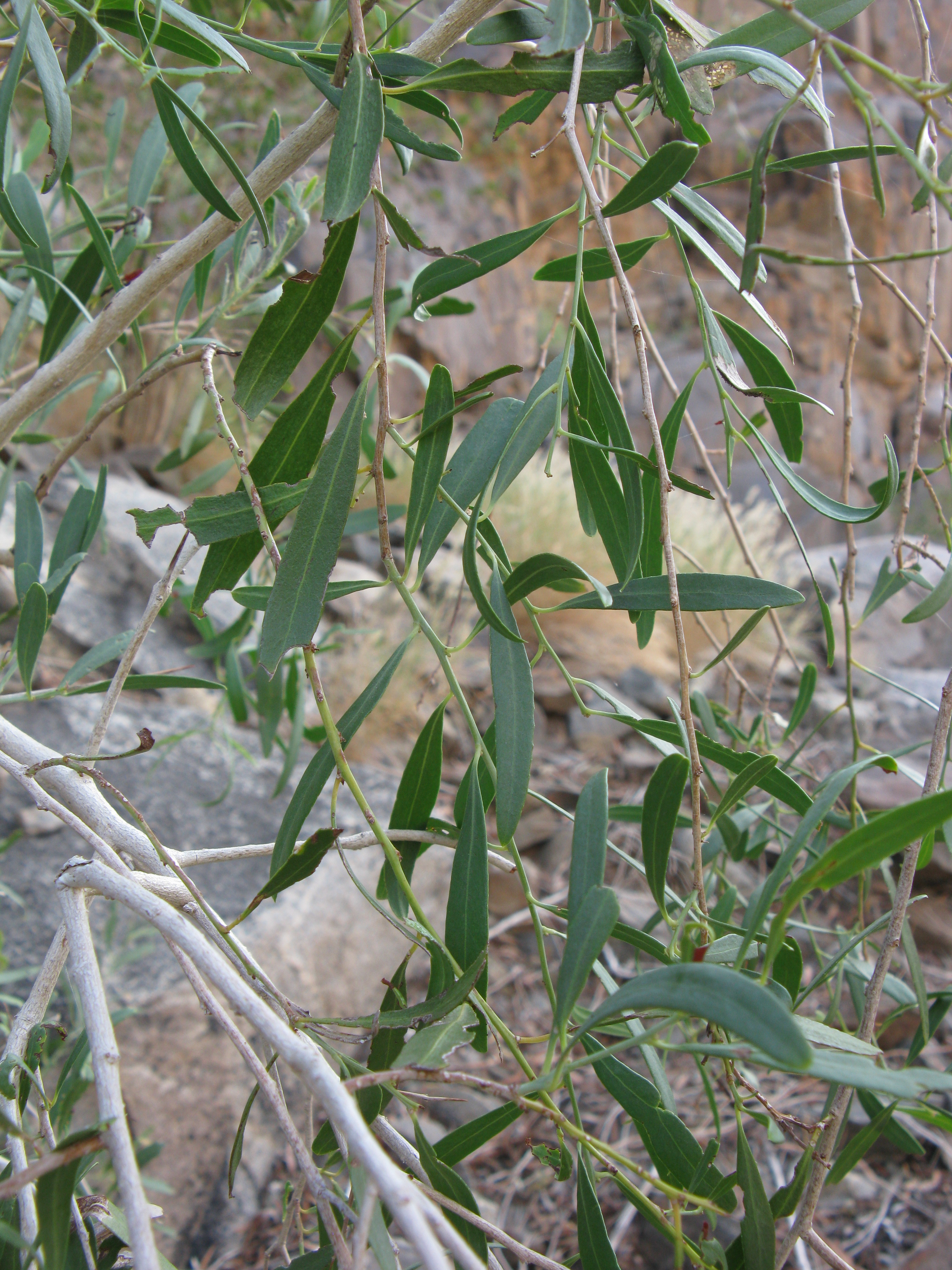 Euclea pseudebenus E.Mey. ex A.DC. Foliage. One of the species of trees growing on scree above the Fish River in the canyon in Namibia